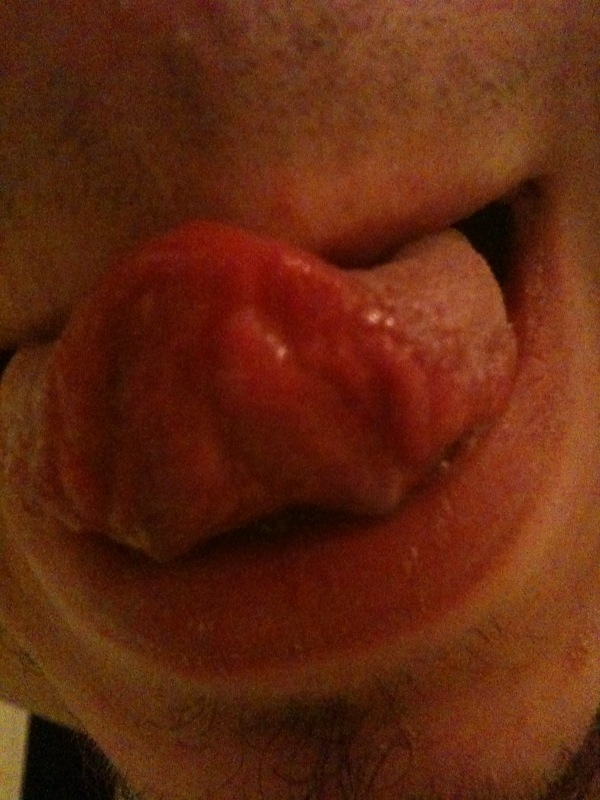 This is a picture of a granular cell tumor